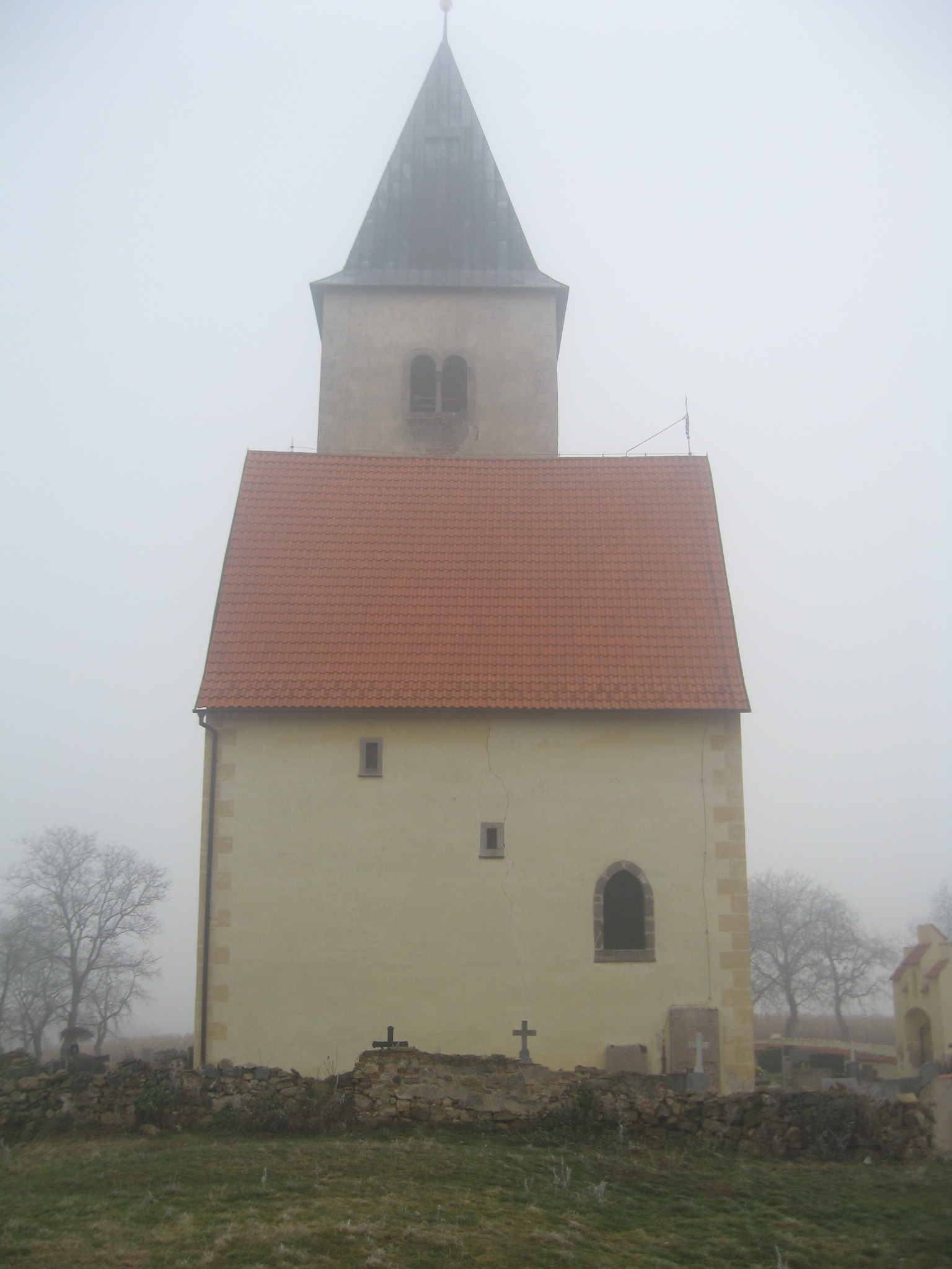 Chvojen, Czech Republic, District Benešov. West Side of the Saint James Church from 13. Century